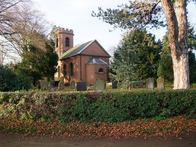 Parish church of St Denis, Morton, Nottinghamshire, seen from the southeast